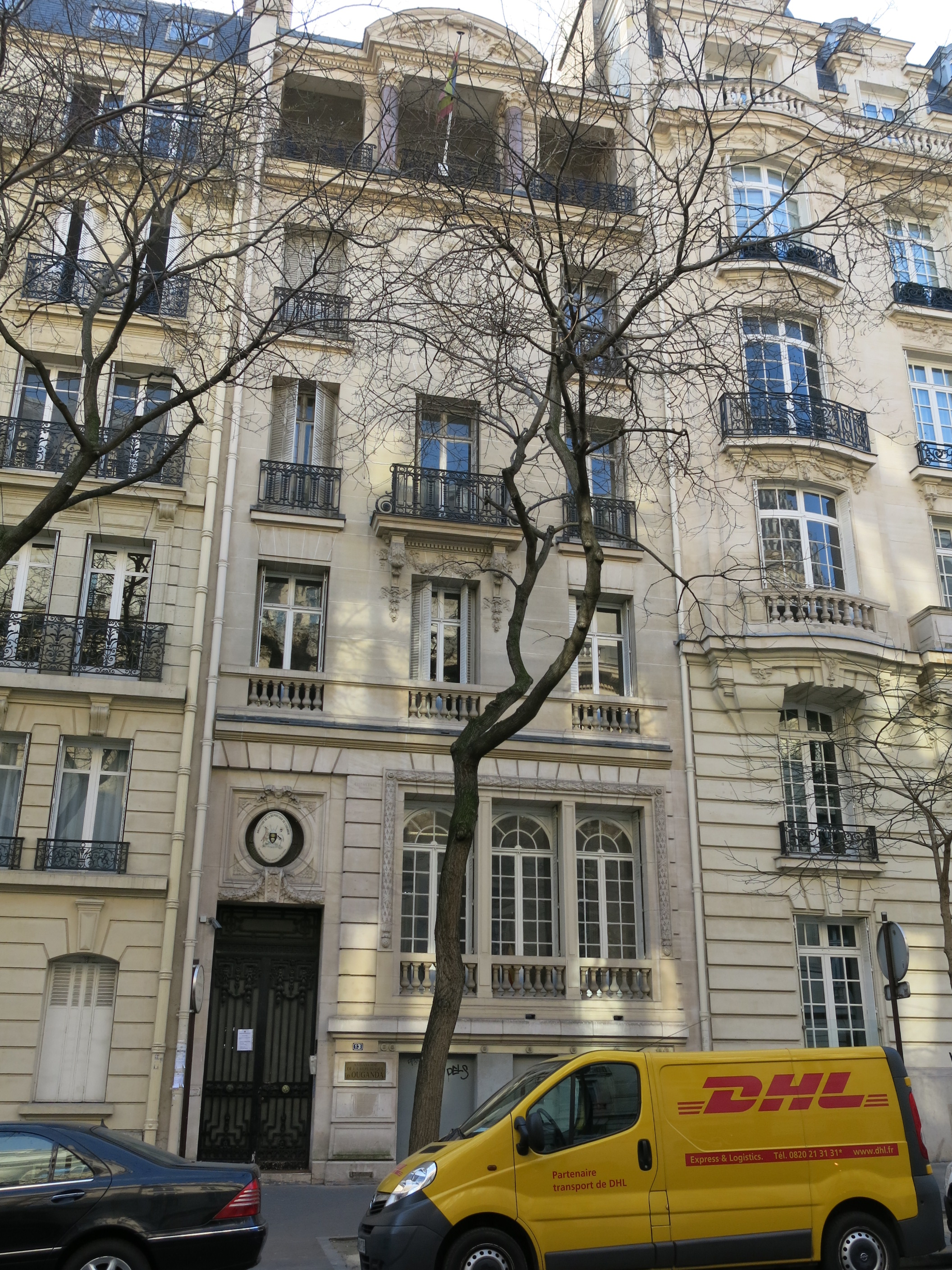 Building at 13 avenue Raymond-Poincaré, Paris 16th arrond.